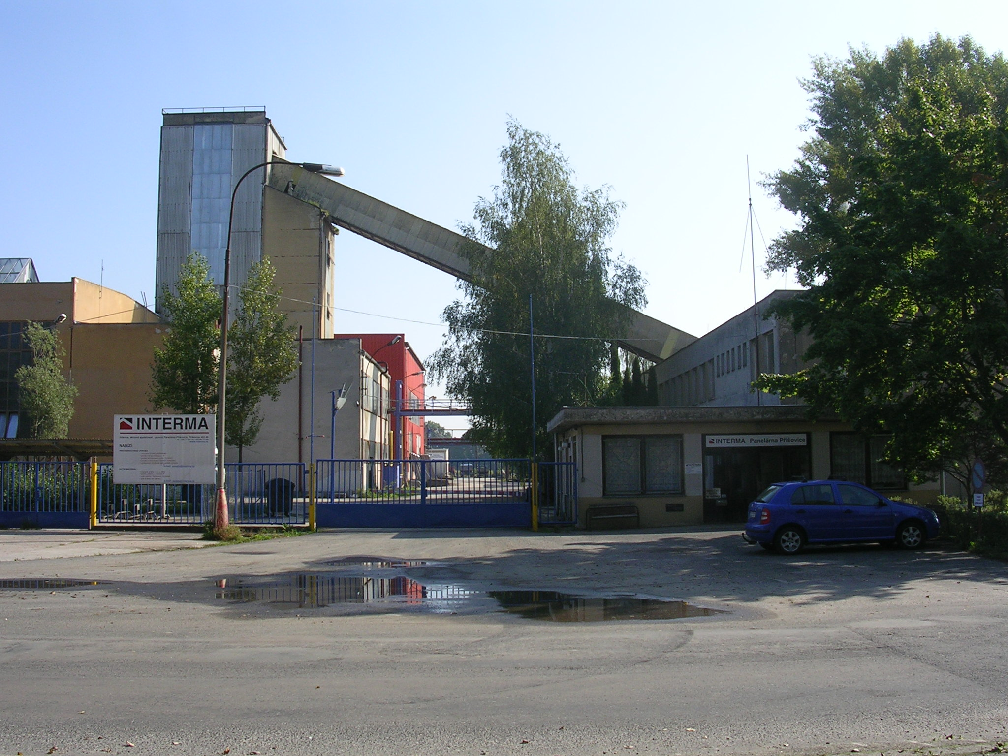 Příšovice, Liberec District, Liberec Region, the Czech Republic. A concrete panel factory.